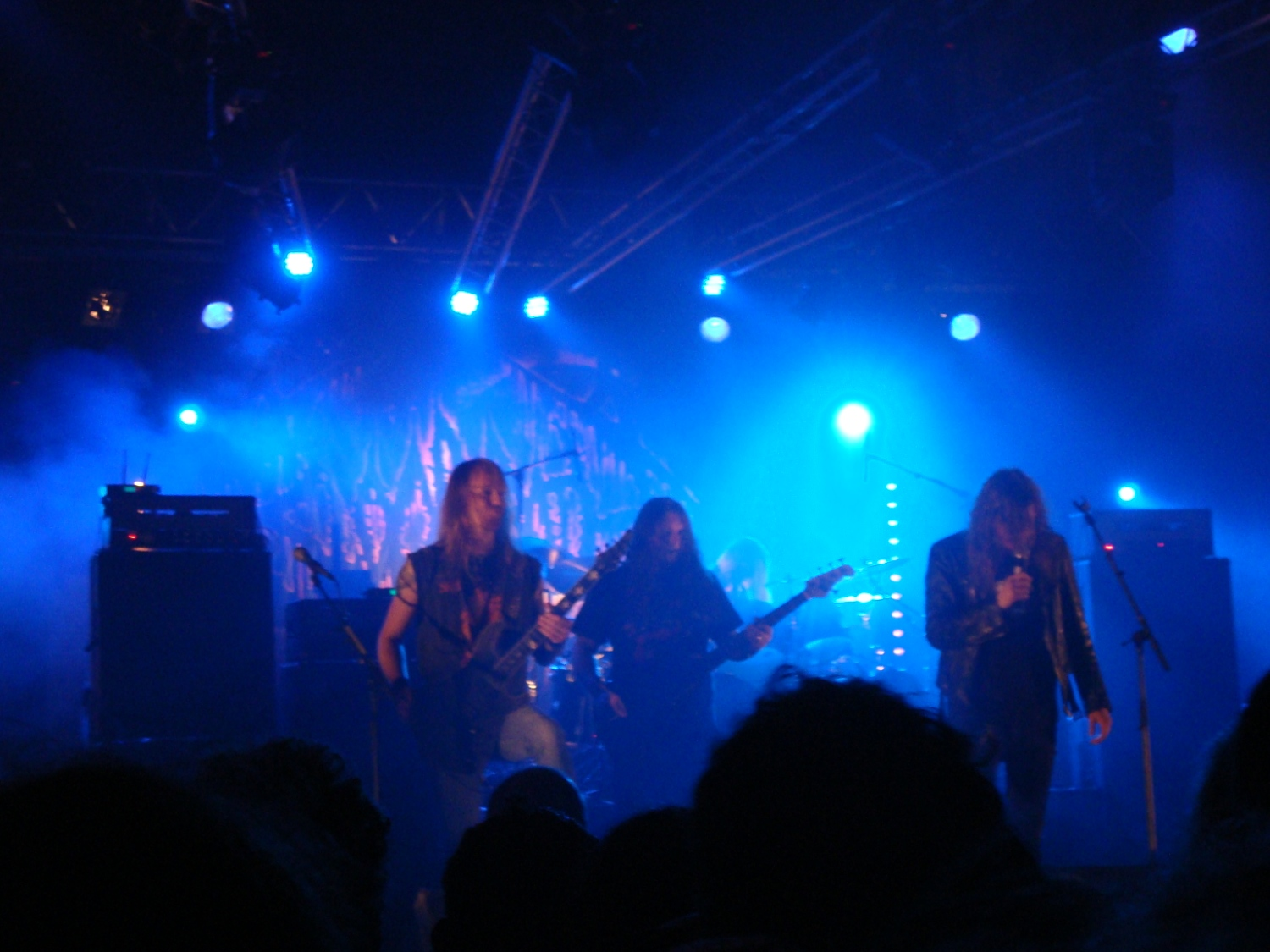 Bloodbath at the Hellfest festival 2010.